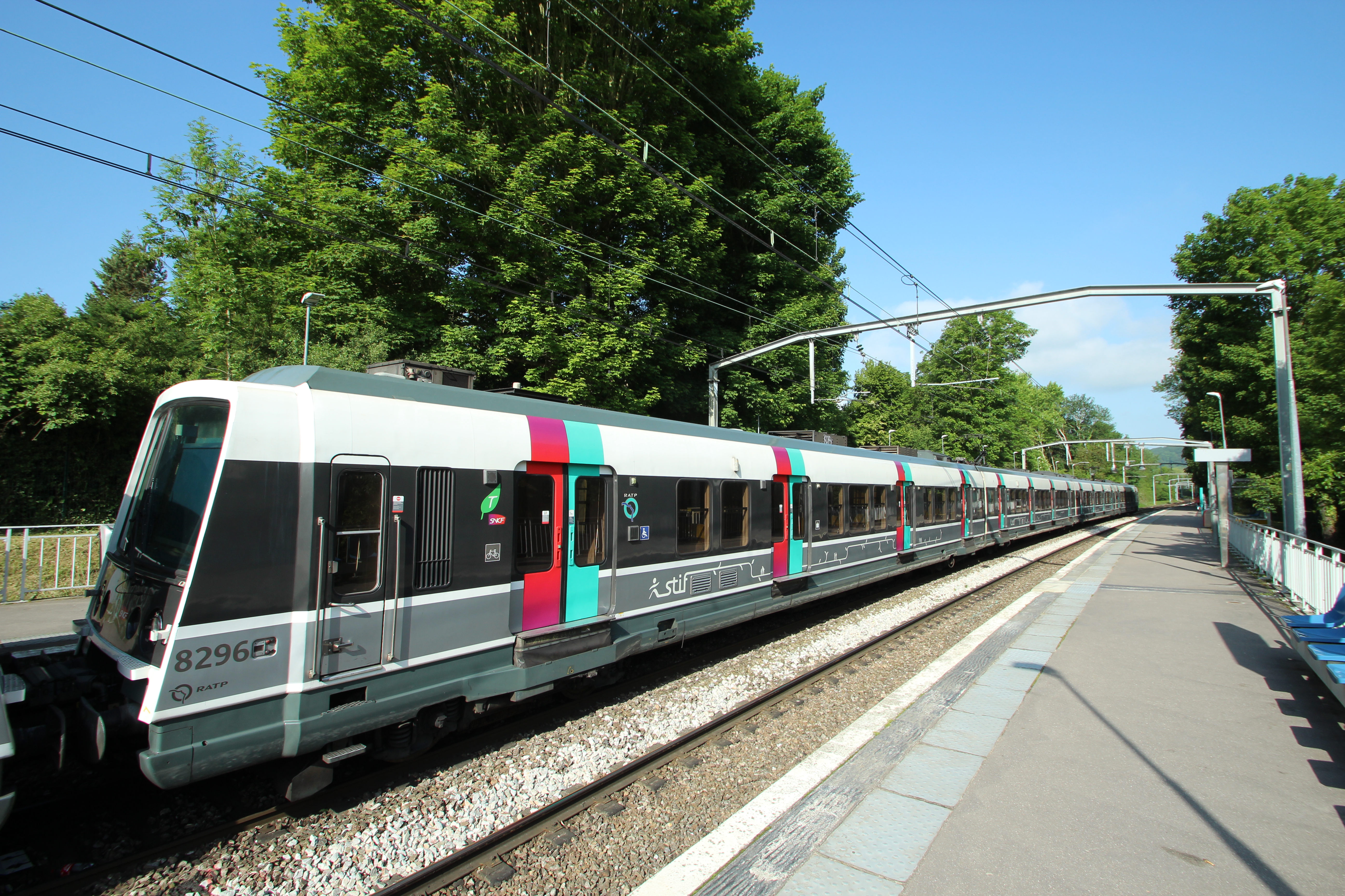 Courcelle-sur-Yvette train station in Gif-sur-Yvette, France.